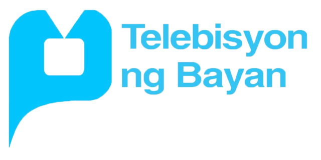 Logo of PTV in 2012 until 2017